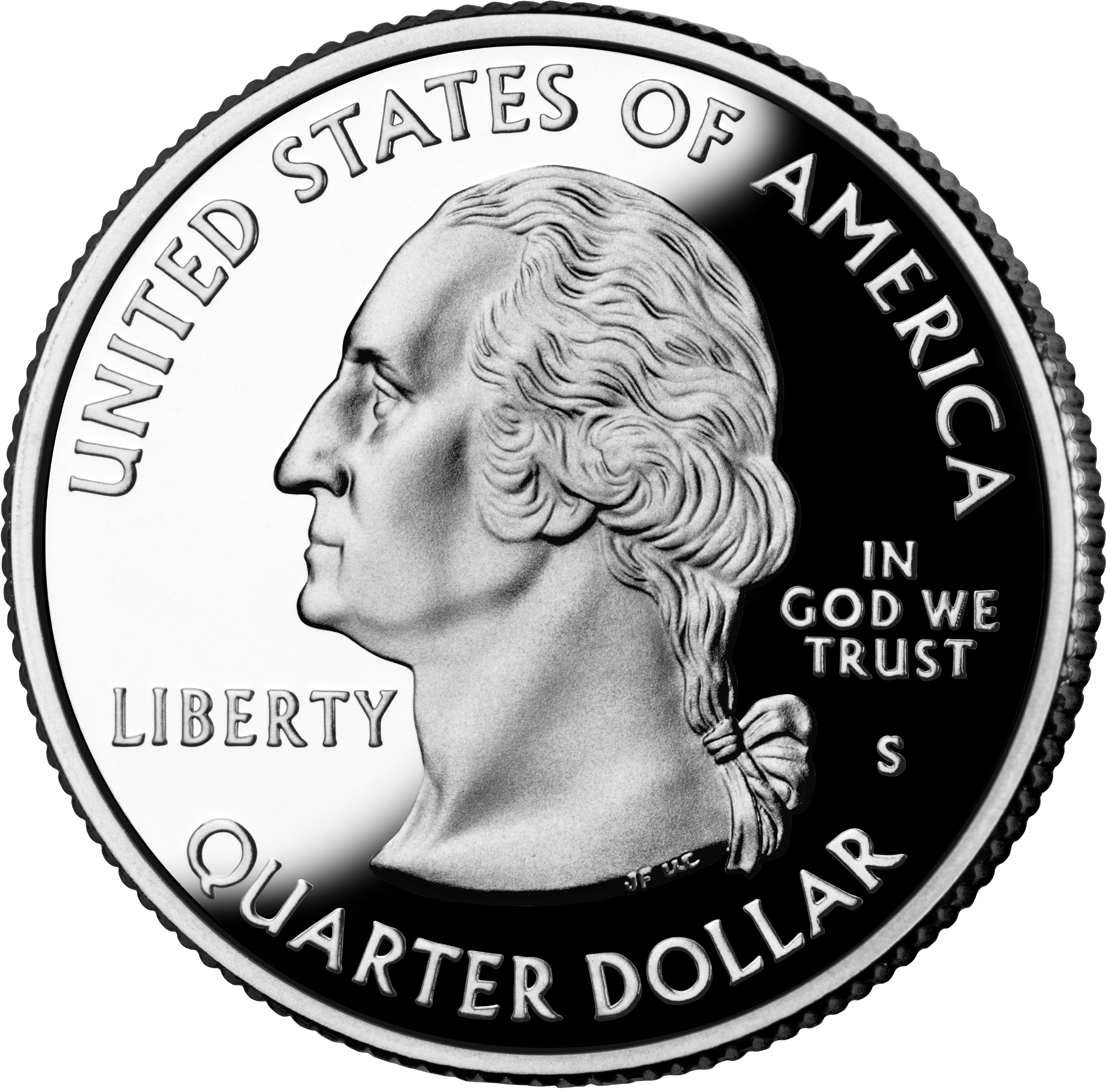 Removed background, cropped, and converted to PNG with Macromedia Fireworks.